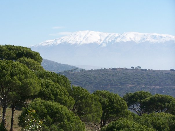 Scenery from Al Rihan village.